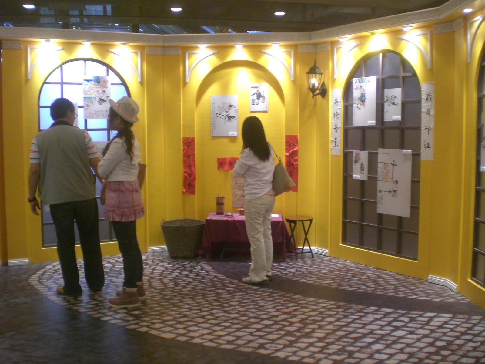 陳偉輝作品展覽 香港時代廣場 - 亞正澳門風情畫展